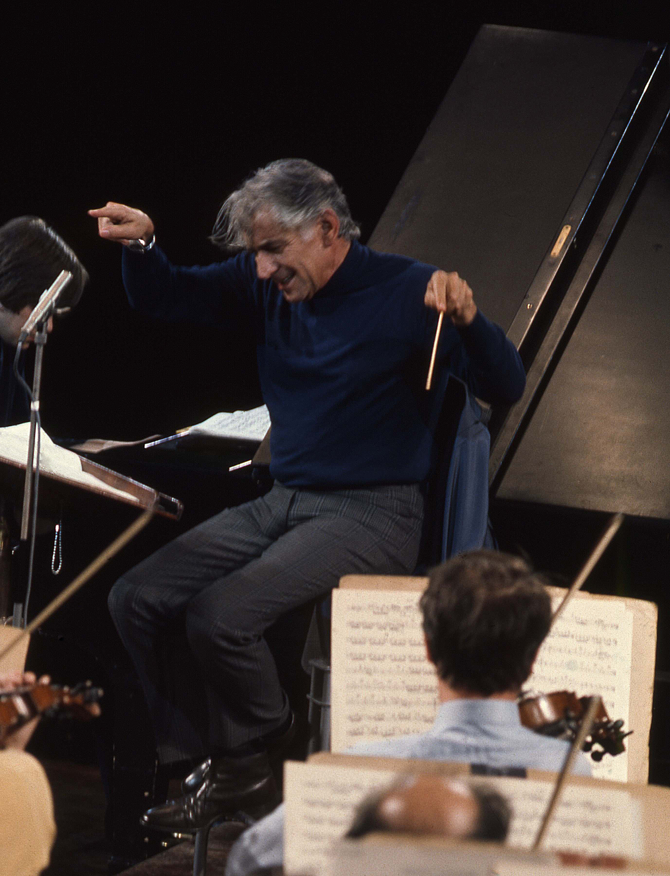 Leonard Bernstein rehearsing at the Albert Hall.